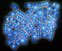 Yeast